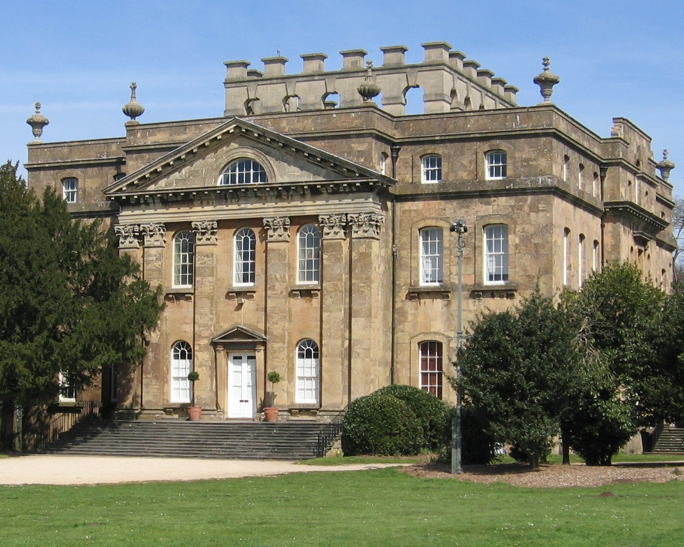 Kings Weston House in Bristol, UK.